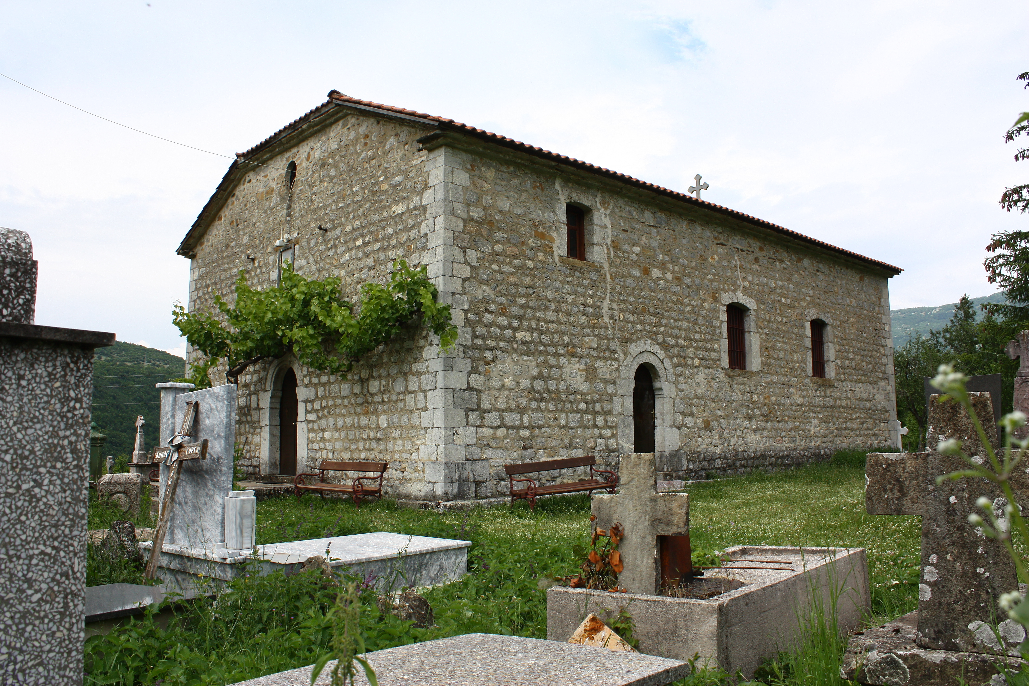 Dormition of the Theotokos Church in Modrič, Macedonia